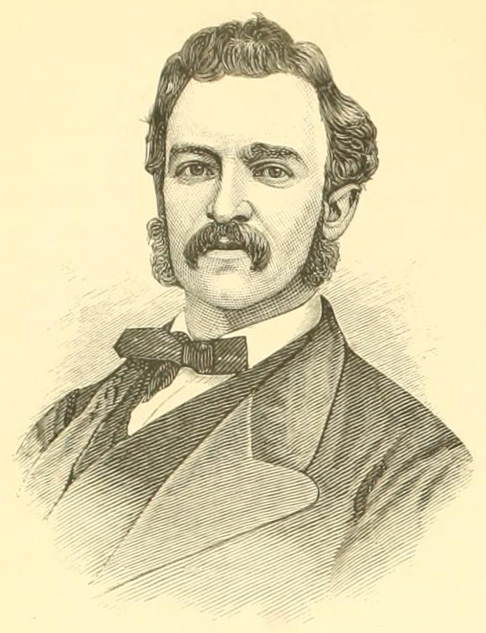 Edward Dexter Holbrook (Idaho Congressman)